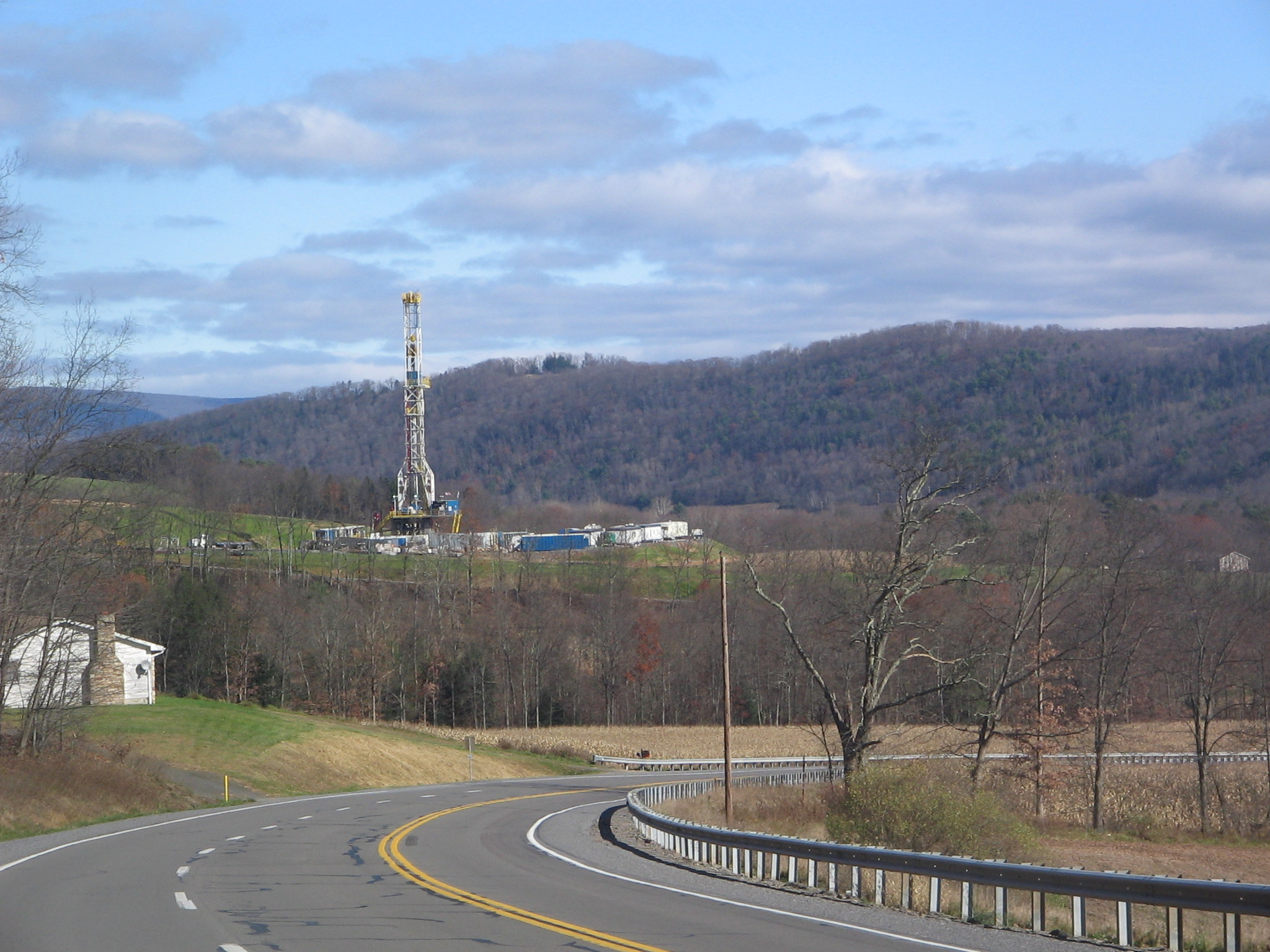 Tower for drilling horizontally into the Marcellus Shale Formation for natural gas, from Pennsylvania Route 118 in eastern Moreland Township, Lycoming County, Pennsylvania, USA